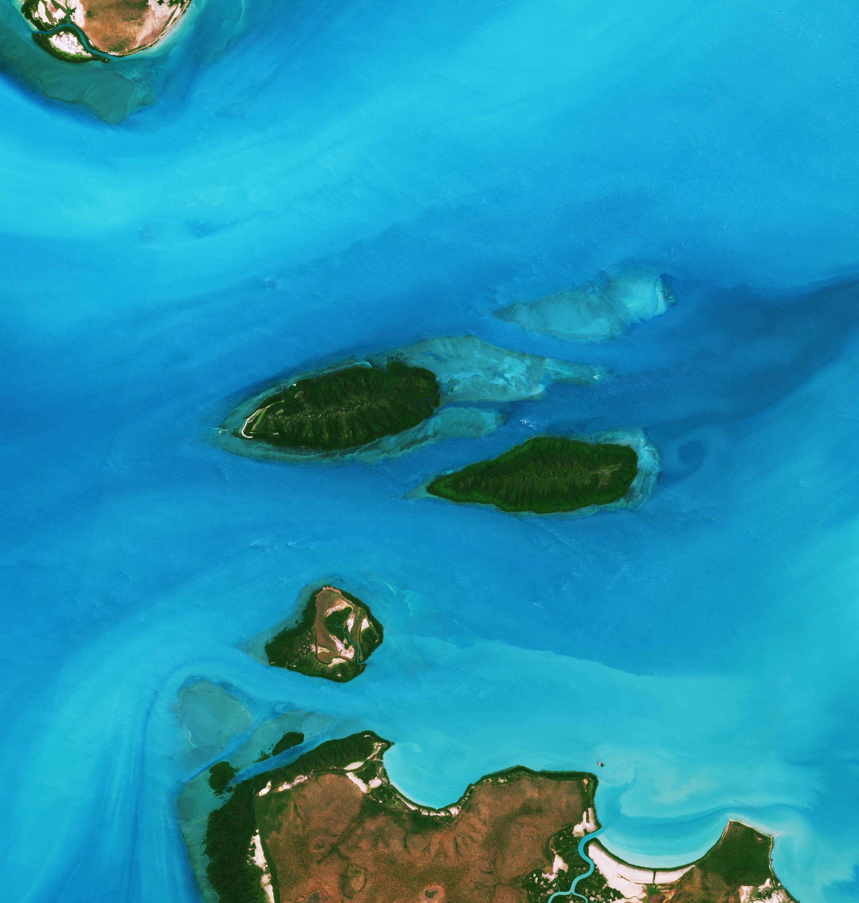 The Vernon Islands, which host navigation aids to assist vessels passing through the strait. Copernicus Sentinel-2 is a two-satellite mission. Each satellite carries a high-resolution camera that images Earth’s surface in 13 spectral bands. Data from Copernicus Sentinel-2 can help monitor changes in land cover. This image, captured on 24 June 2019, is also featured on the Earth from Space video programme.